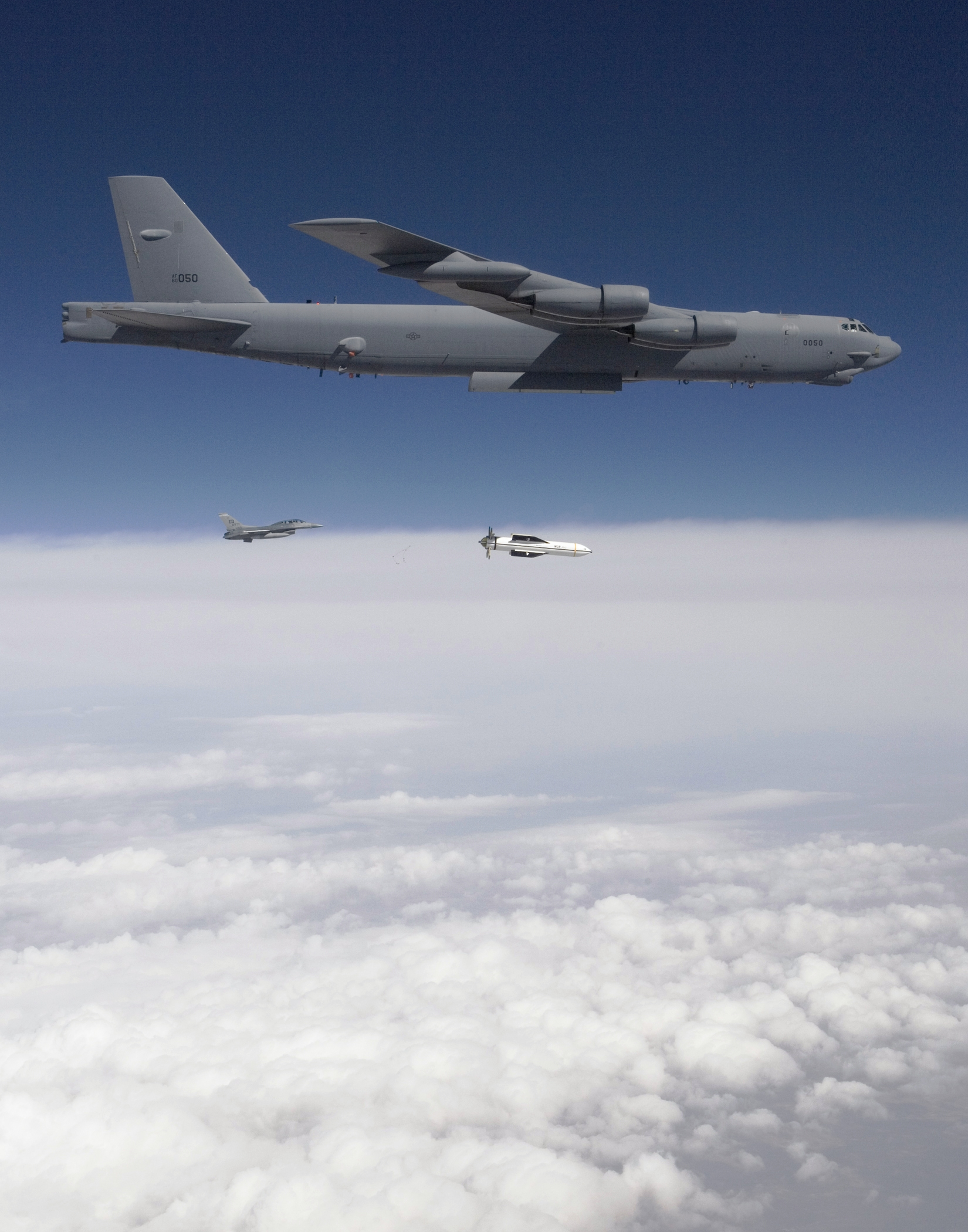 A B-52 releases a test version of the Massive Ordnance Penetrator (MOP) during a test of the weapon over White Sands Missile Range, N.M. in 2009. (DoD photo)